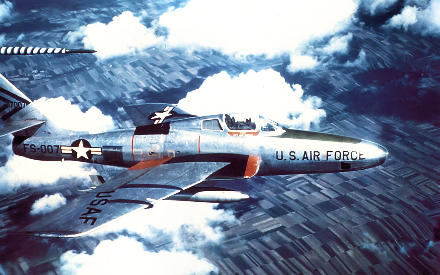 303d Tactical Reconnaissance Squadron - Republic RF-84F-25-RE Thunderflash - 51-17007